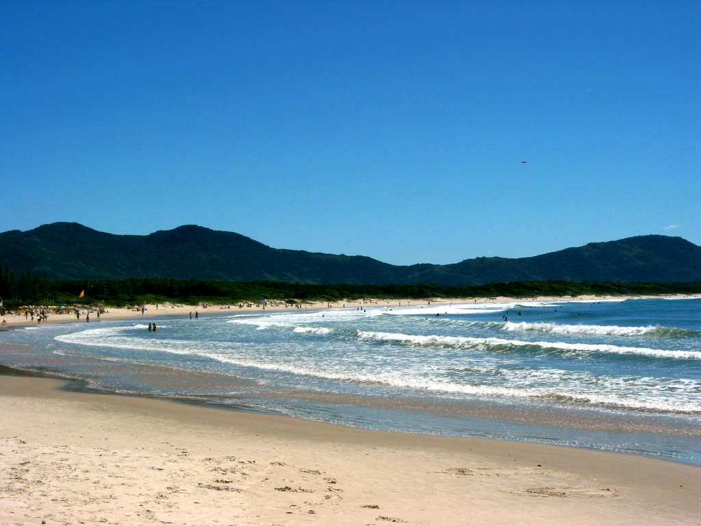 The "Bunny Slope" of Surfing is Barra da Lagoa in Florianopolis, Brazil.